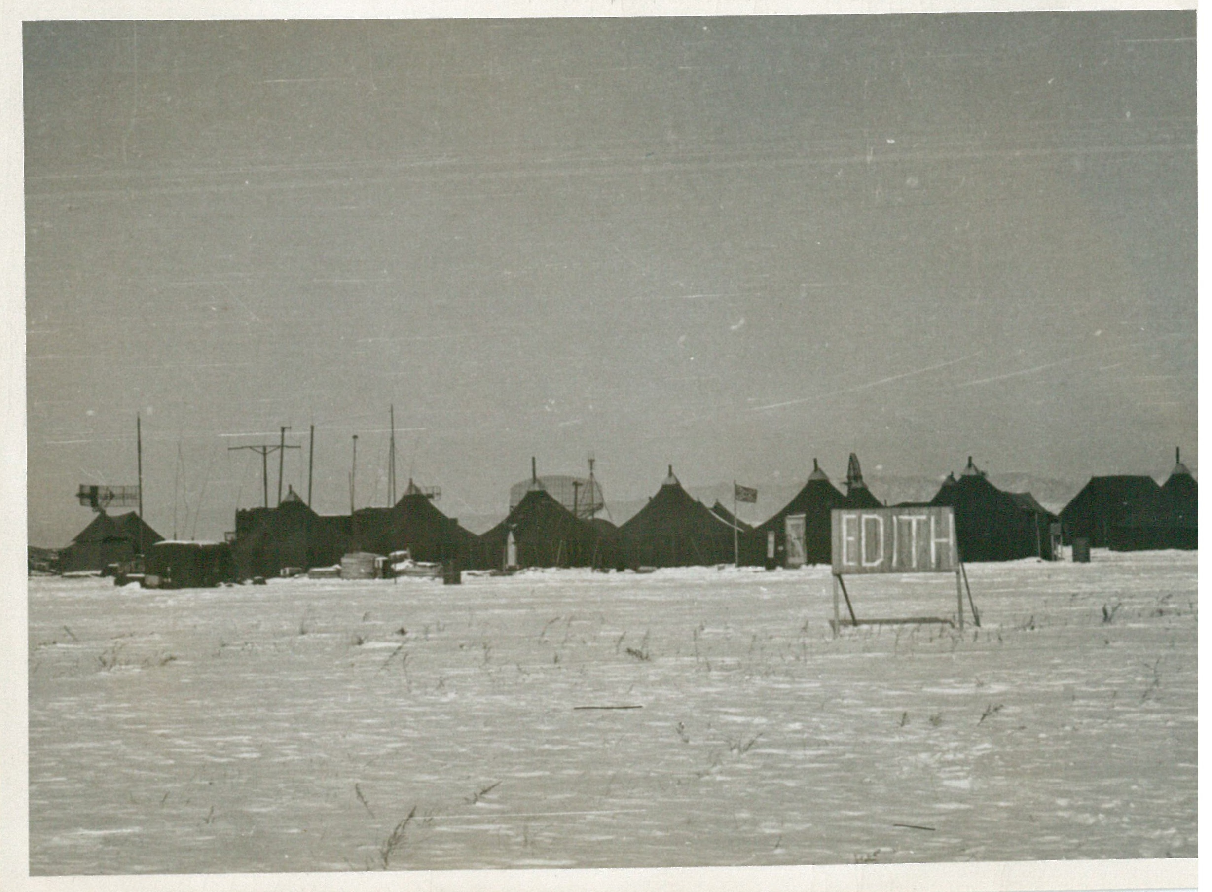 Radar site belonging to Marine Ground Control Intercept Squadron-1 (MGCIS-1) at Yonpo Airfield in December 1950. The "Edith" on the sign in the foreground denotes the callsign of the unit at the time. Radar on the left is the TPS-1B and the larger radar in the middle is an MPS-5